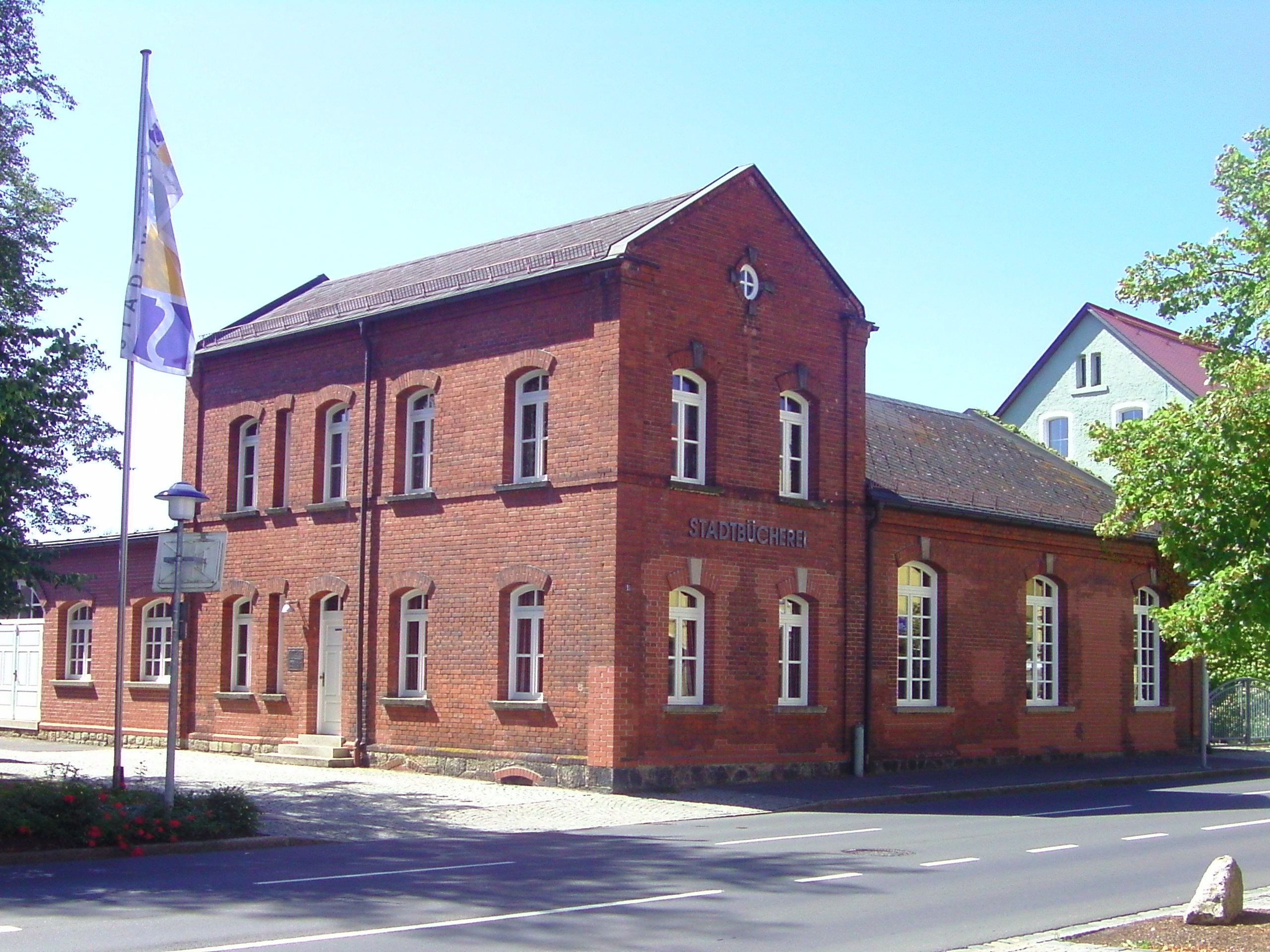 Library of Tirschenreuth